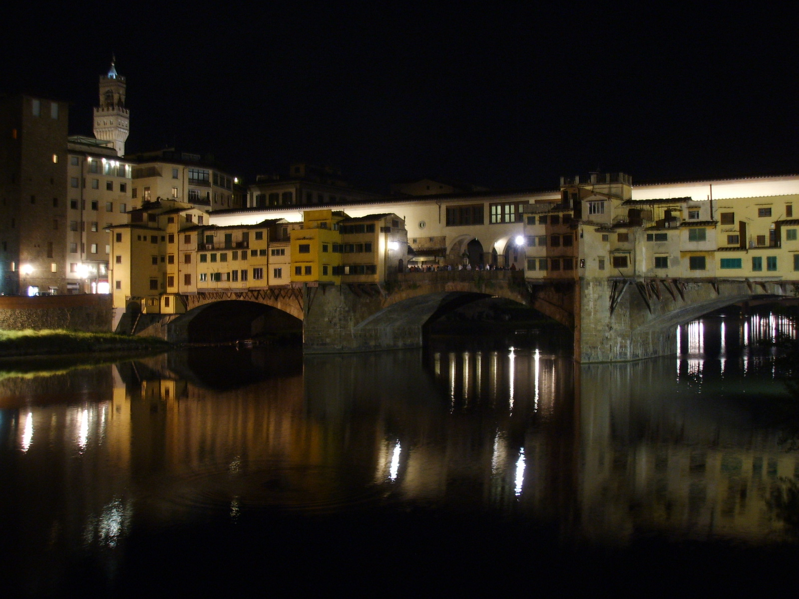 Ponte Vecchio (Old Bridge) by night, Florence, Italy